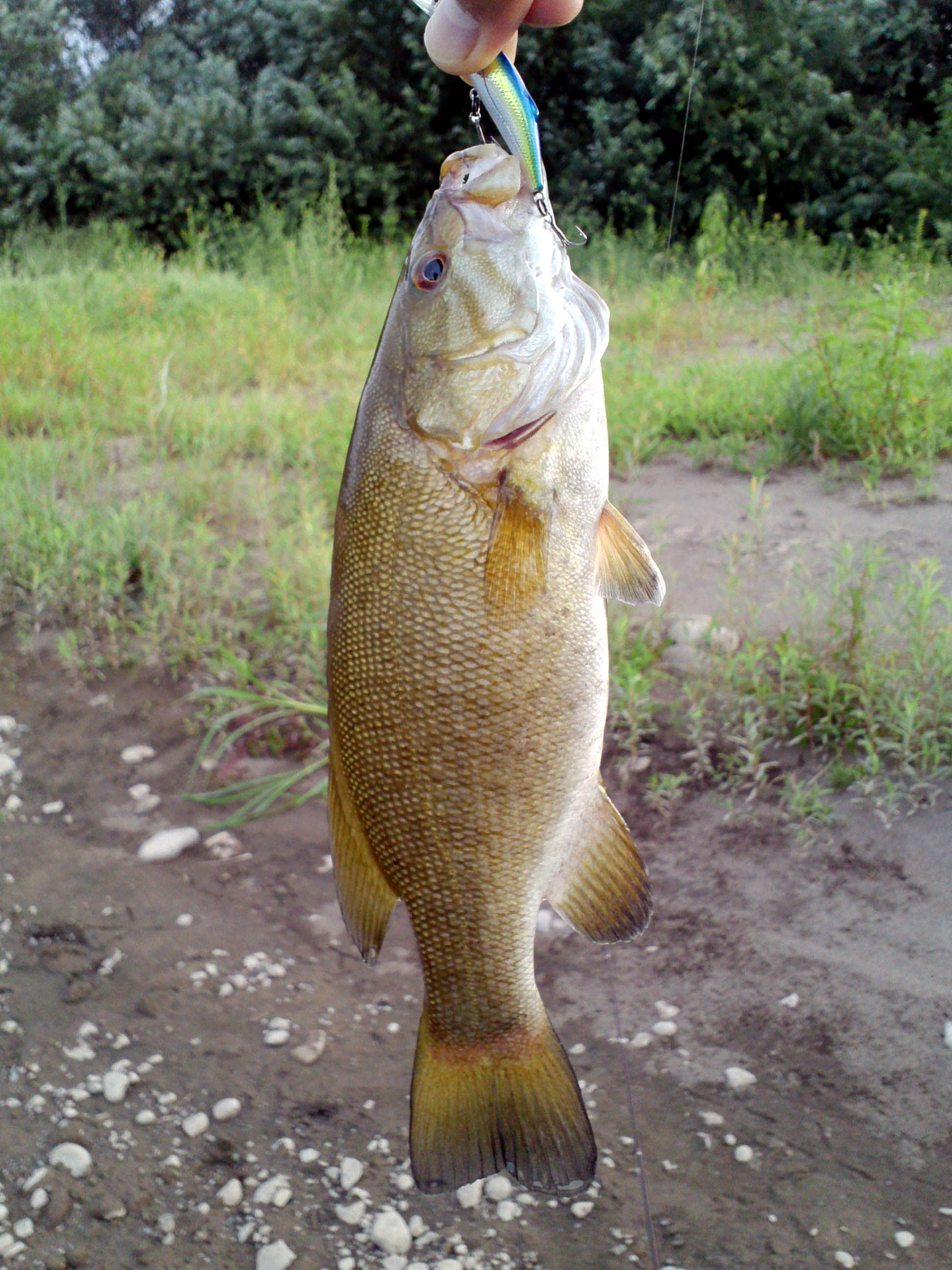 l=Smallmouth bass at Chikuma-gawa River. Nagano pref., Japan